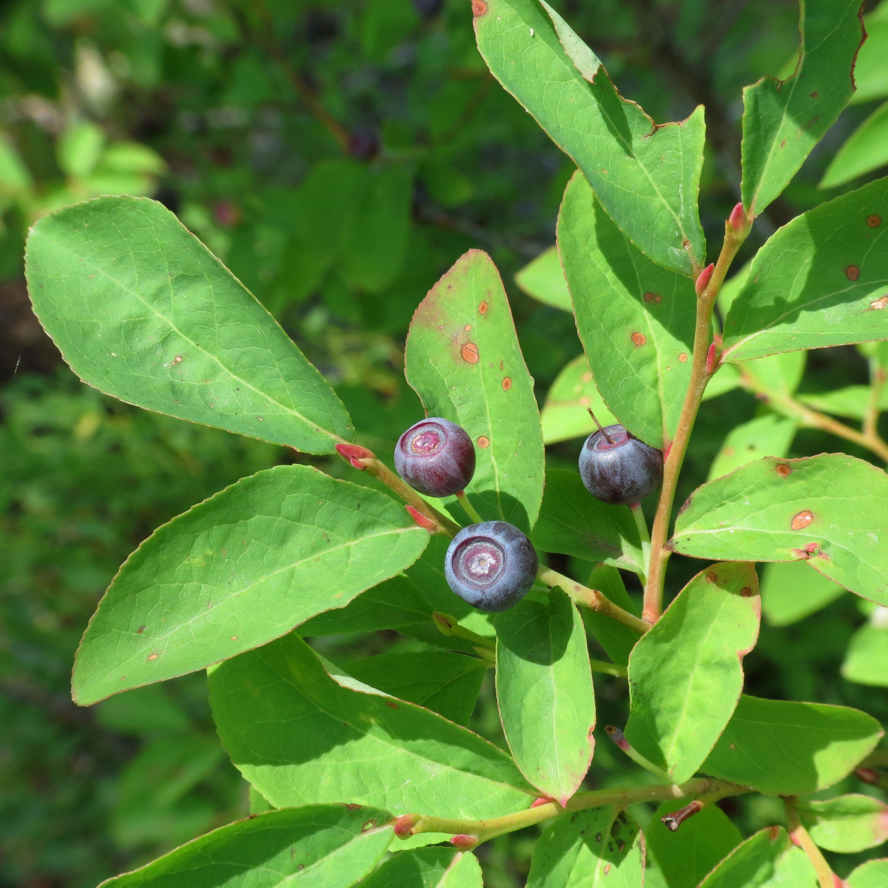 Vaccinium membranaceum. Along the trail to Lily Lake, Sawtooth National Forest near Stanley, Idaho.